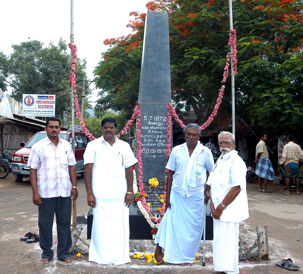 the stone monument of agriculturer's movement.